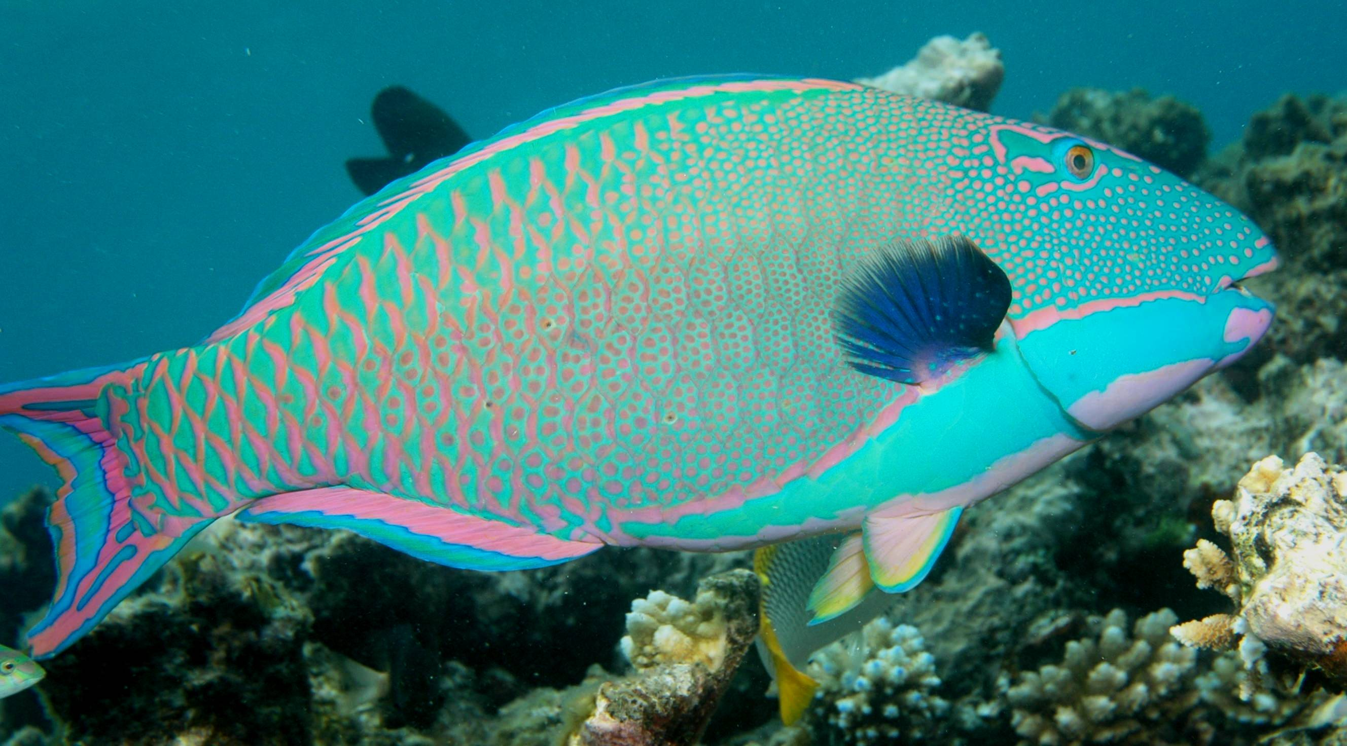 Cetoscarus ocellatus, Great Barrier Reef, Cairns, Australia